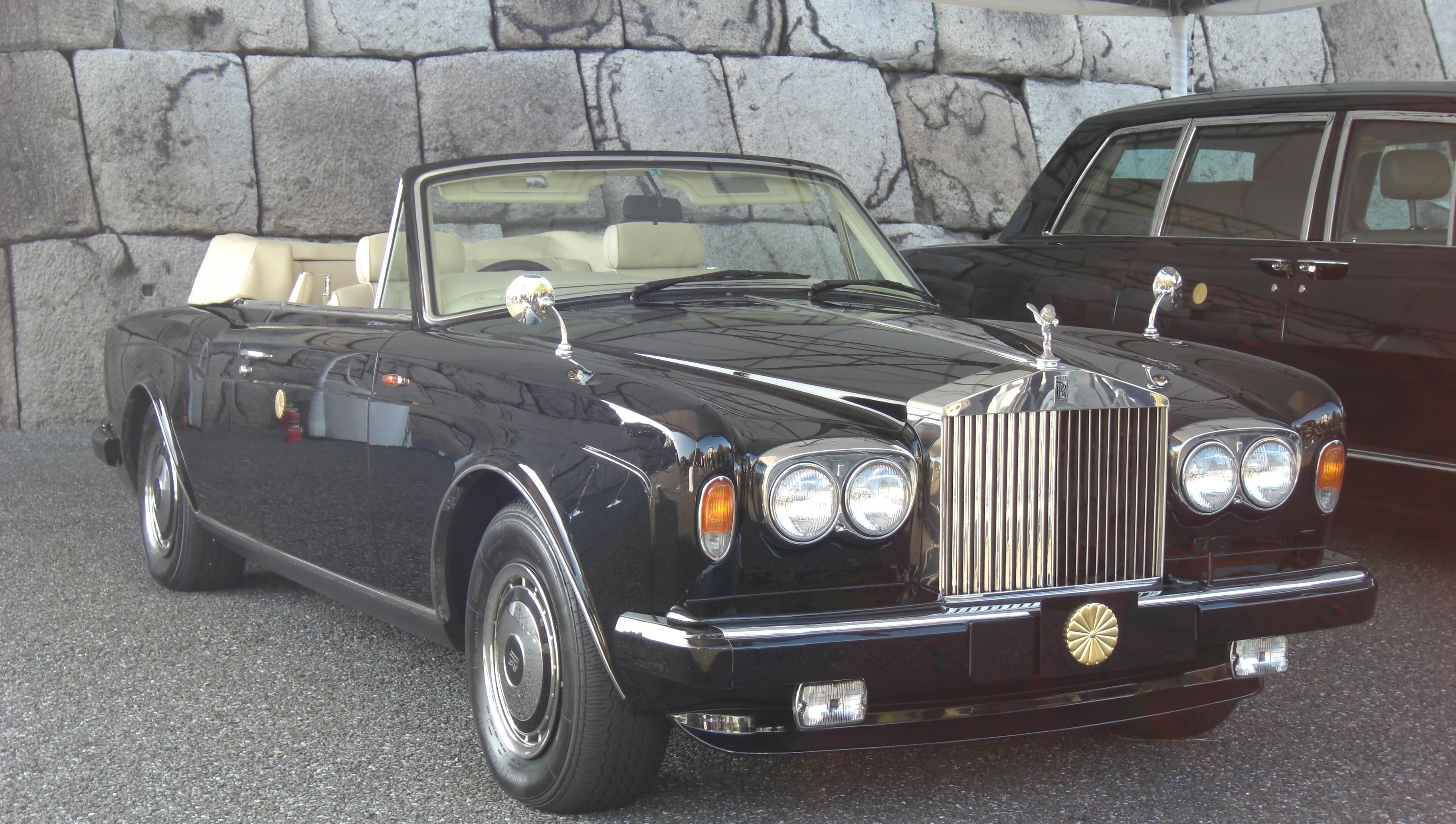 At the special exhibition commemorating the Emperor 's 20th anniversary.